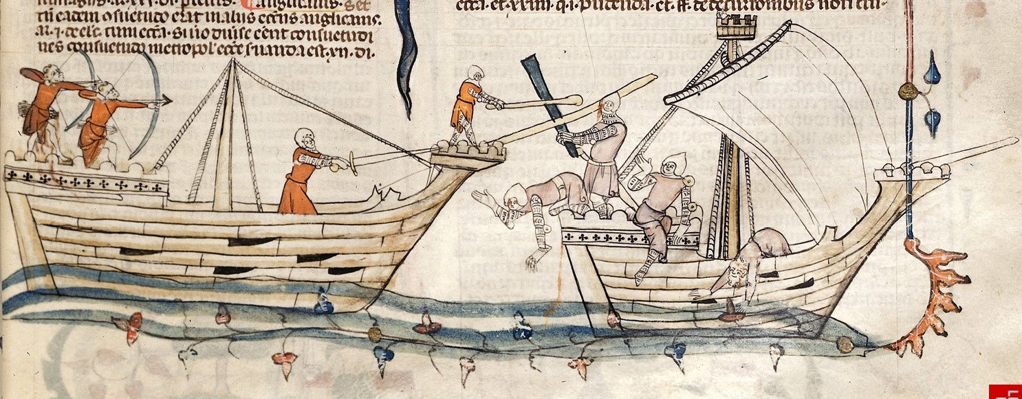 Scene of two ships engaged in a battle.